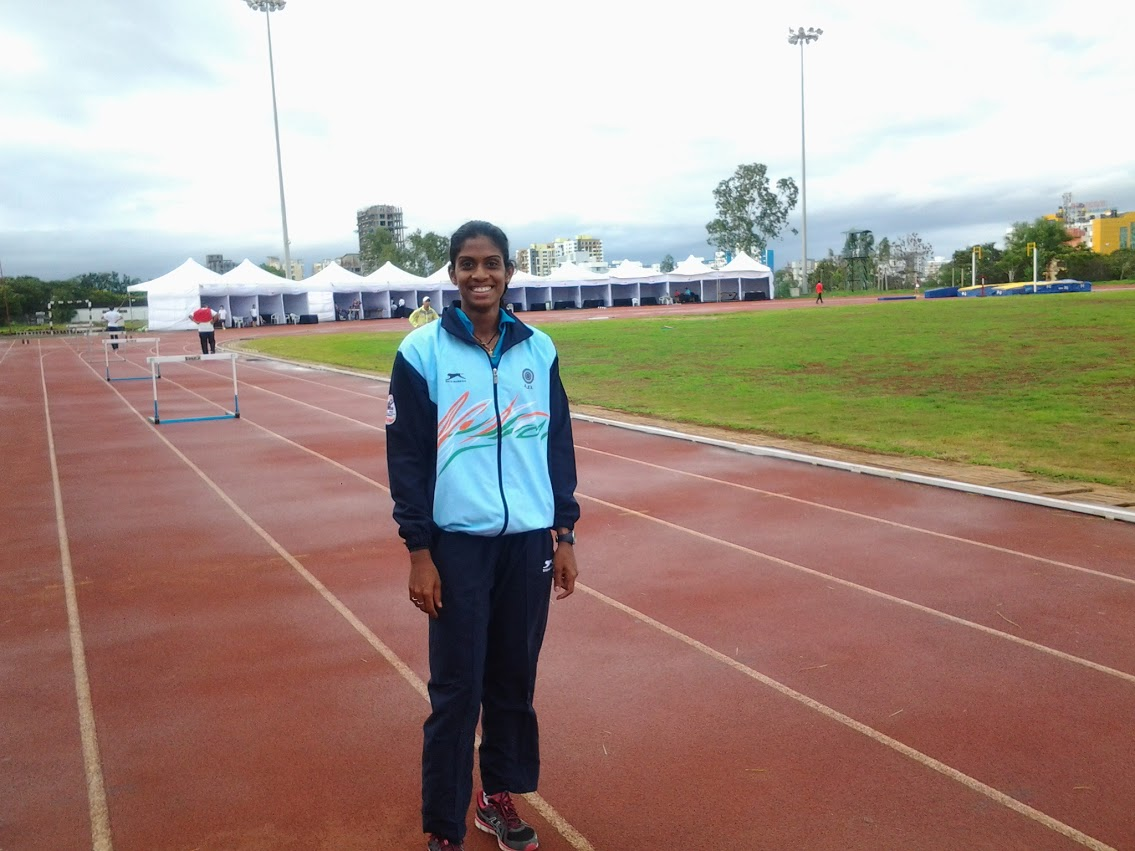 M.R. Poovamma is a 400m sprinter. She is currently ranked 2nd in Asia. Poovamma is supported by Anglian Medal-Hunt Company